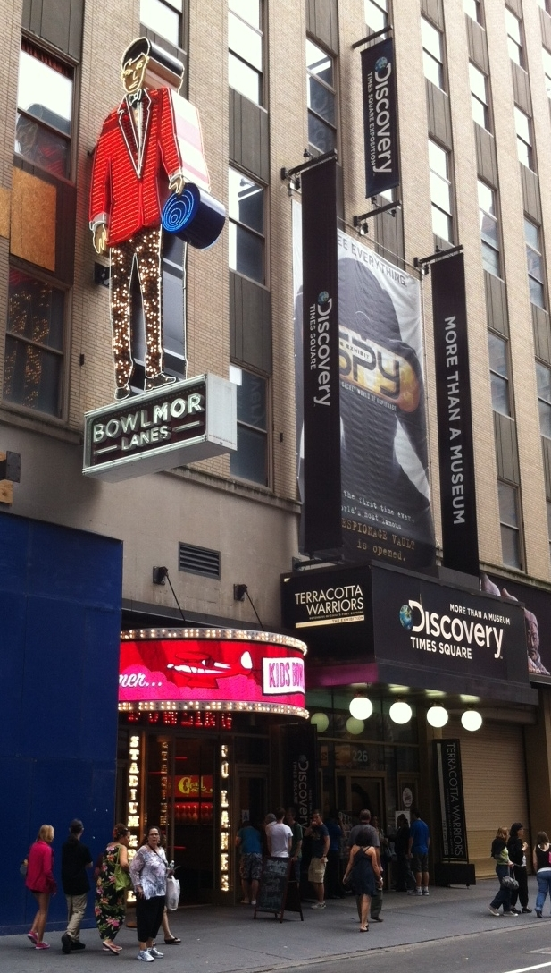 Bowlmor Lanes Times Square, 222 West 44th Street, Manhattan, New York.